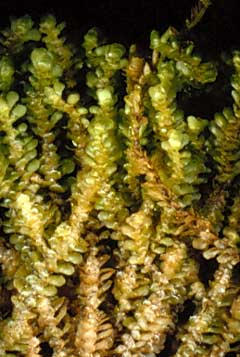 A collection of Scapania stems collected in northern California, 1995.